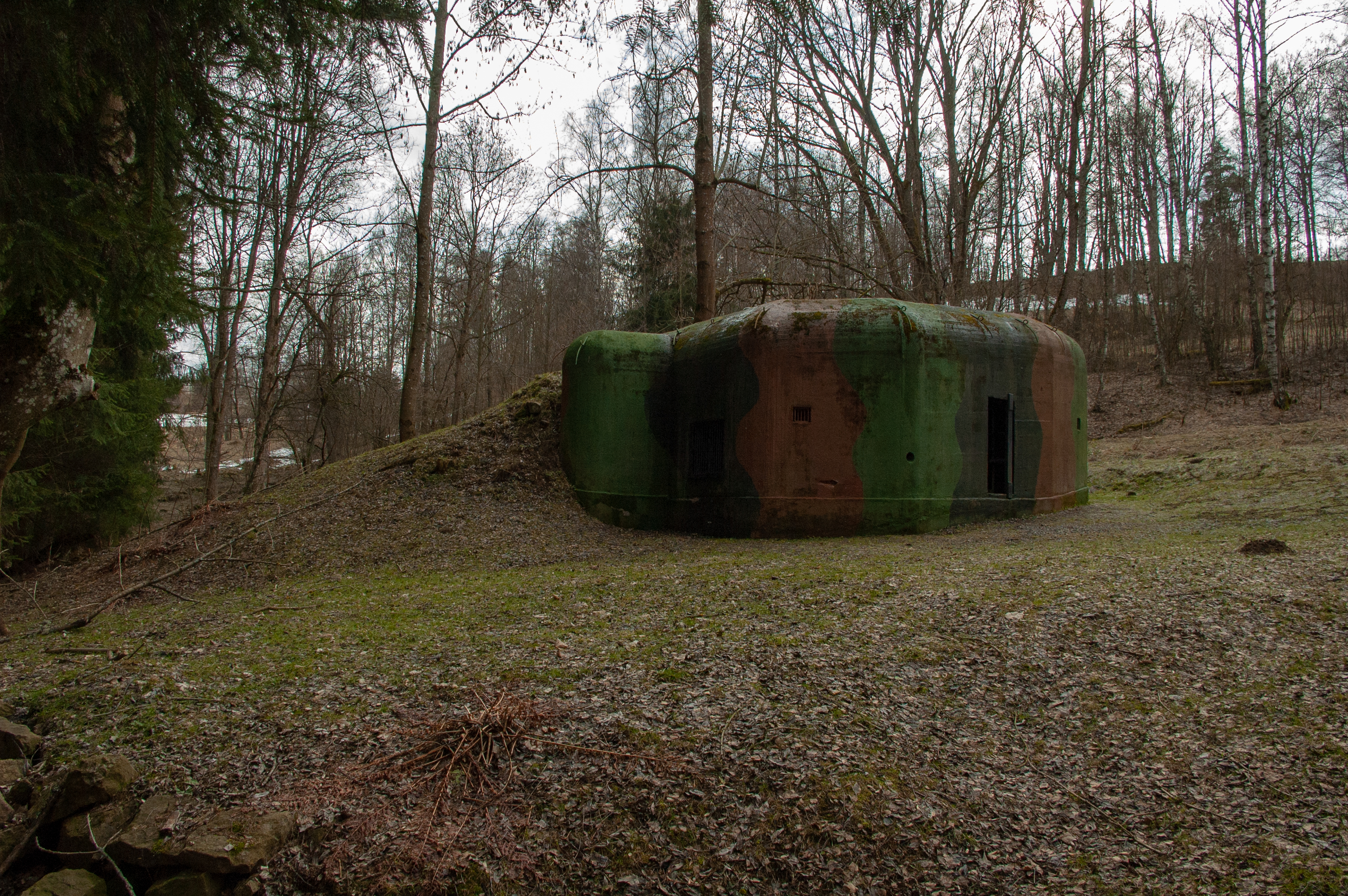 This image was created as a part of Editaton Prachatice (Czech).